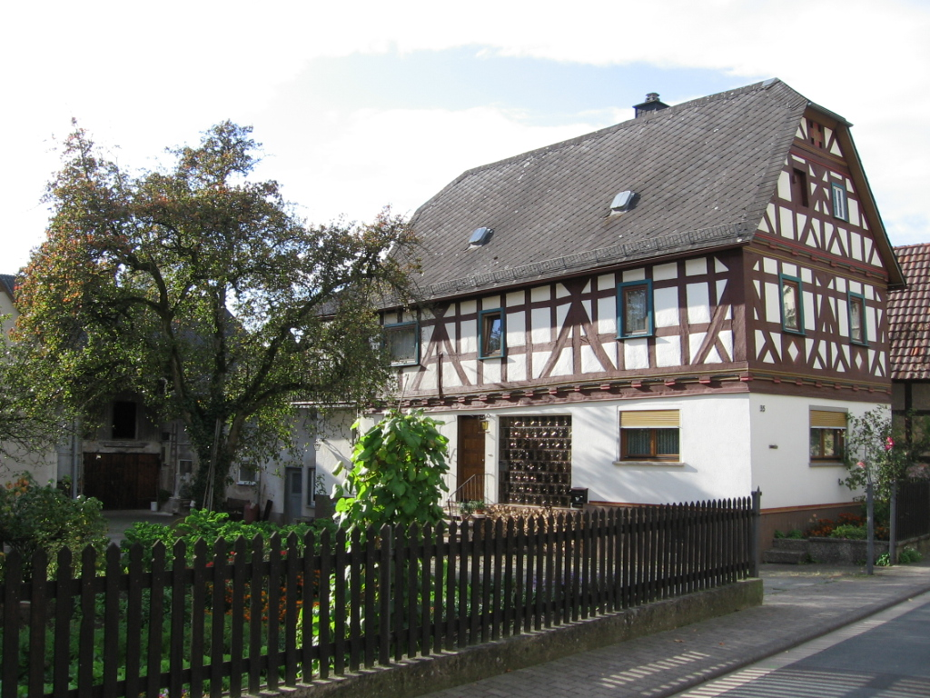 Timber-framed house (Hauptstrasse 35) in Bonbaden (district Lahn-Dill, Hesse)